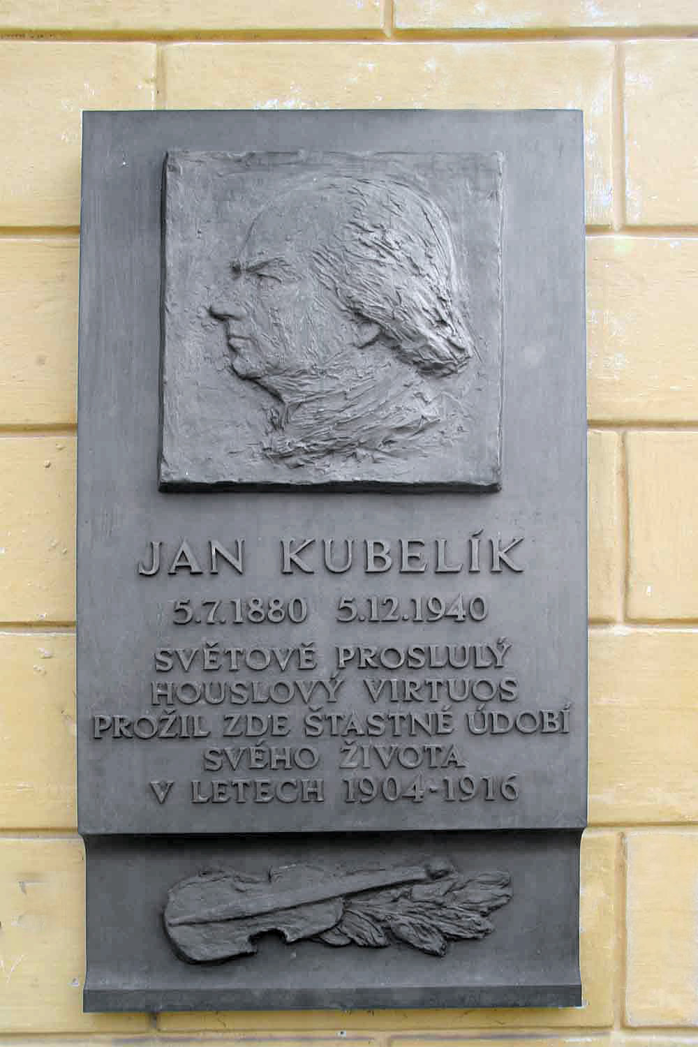 Memorial plaque to violinist and composer Jan Kubelík on manor house in Býchory near Kolín, Czech Republic. Jan Kubelík lived here since 1904 to 1916.